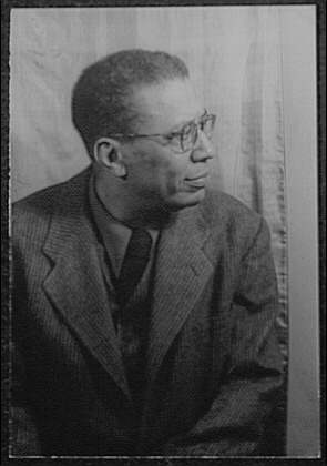 Title: Portrait of Hall Johnson Abstract/medium: 1 photographic print : gelatin silver.